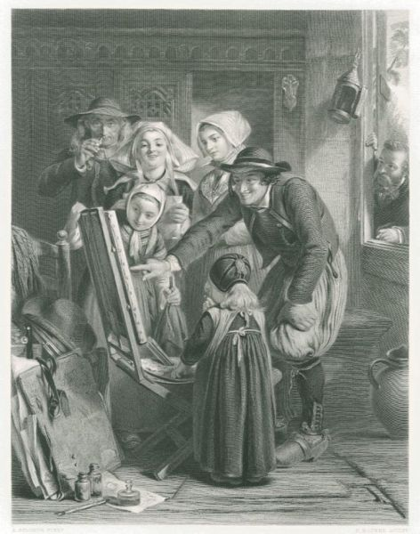 Art Critics in Brittany